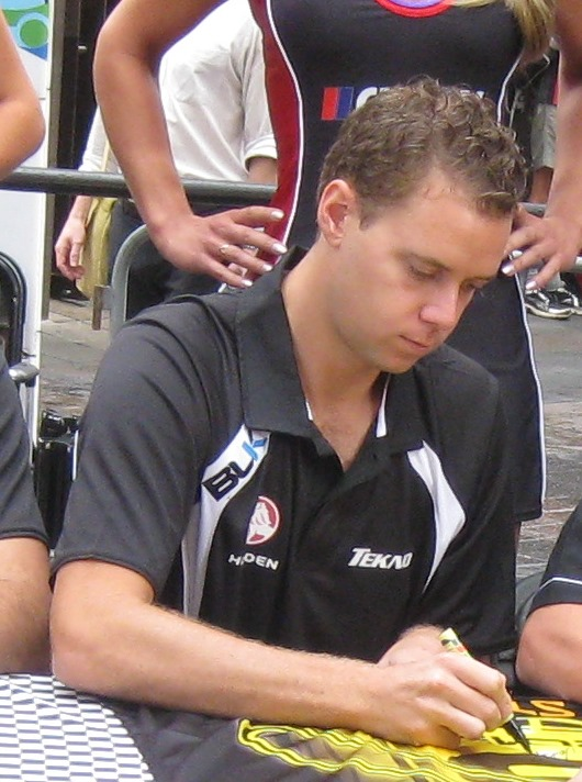 V8 Supercar driver Jonathon Webb, pictured in 2013